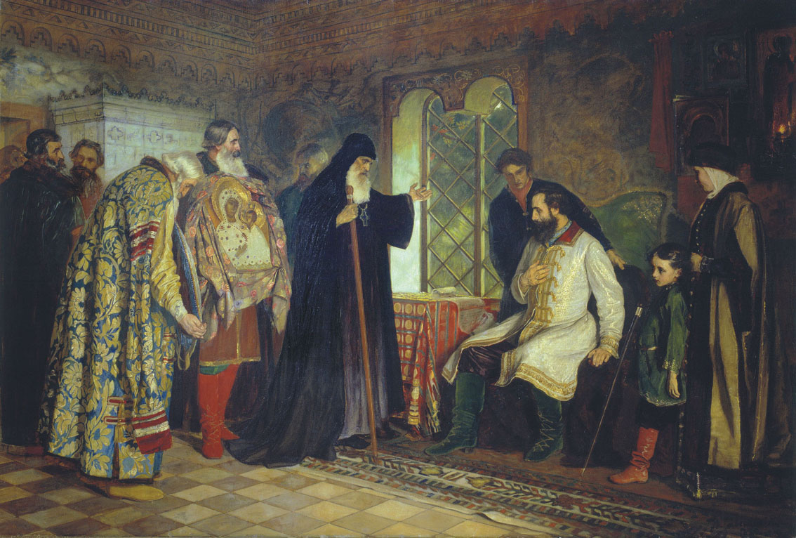 Vasily Savinsky (1857-1937). Dmitry Pozharsky and Envoys from Nizhny Novgorod (1882).